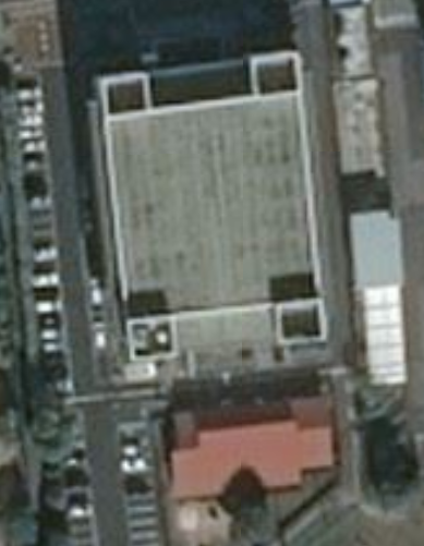 Satellite view